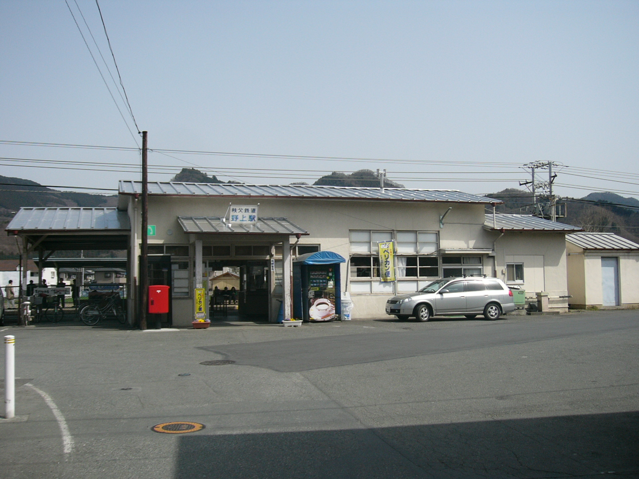 Nogami Station on the Chichibu Main Line